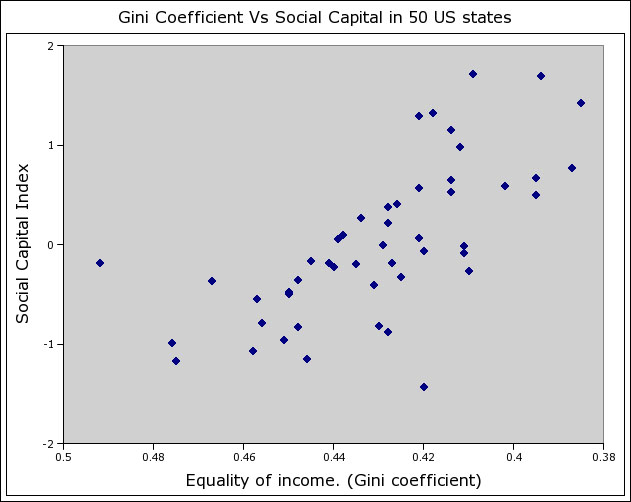 Social Capital Index vs. Gini Coefficient in 50 US States. Created by myself using data from and I hereby release this image into the public domain.